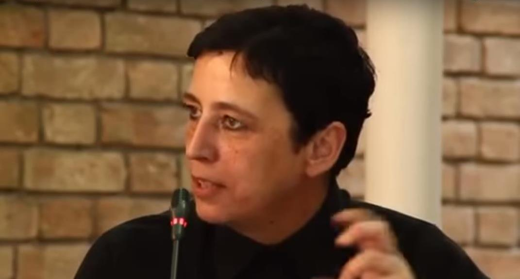 Beatrix Ruf at Lumen Foundation, 5 Jan. 2015